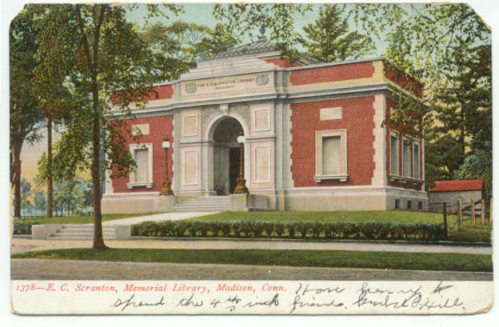 Postcard: E.C. Scranton Memorial Library, a public library in Madison, 1906 postmark Description from caption in front: "1378 E.C. Scranton, Memorial Library, Madison, Conn." Description from Web page: "Madison Ct c1906 Postcard Scranton Library"